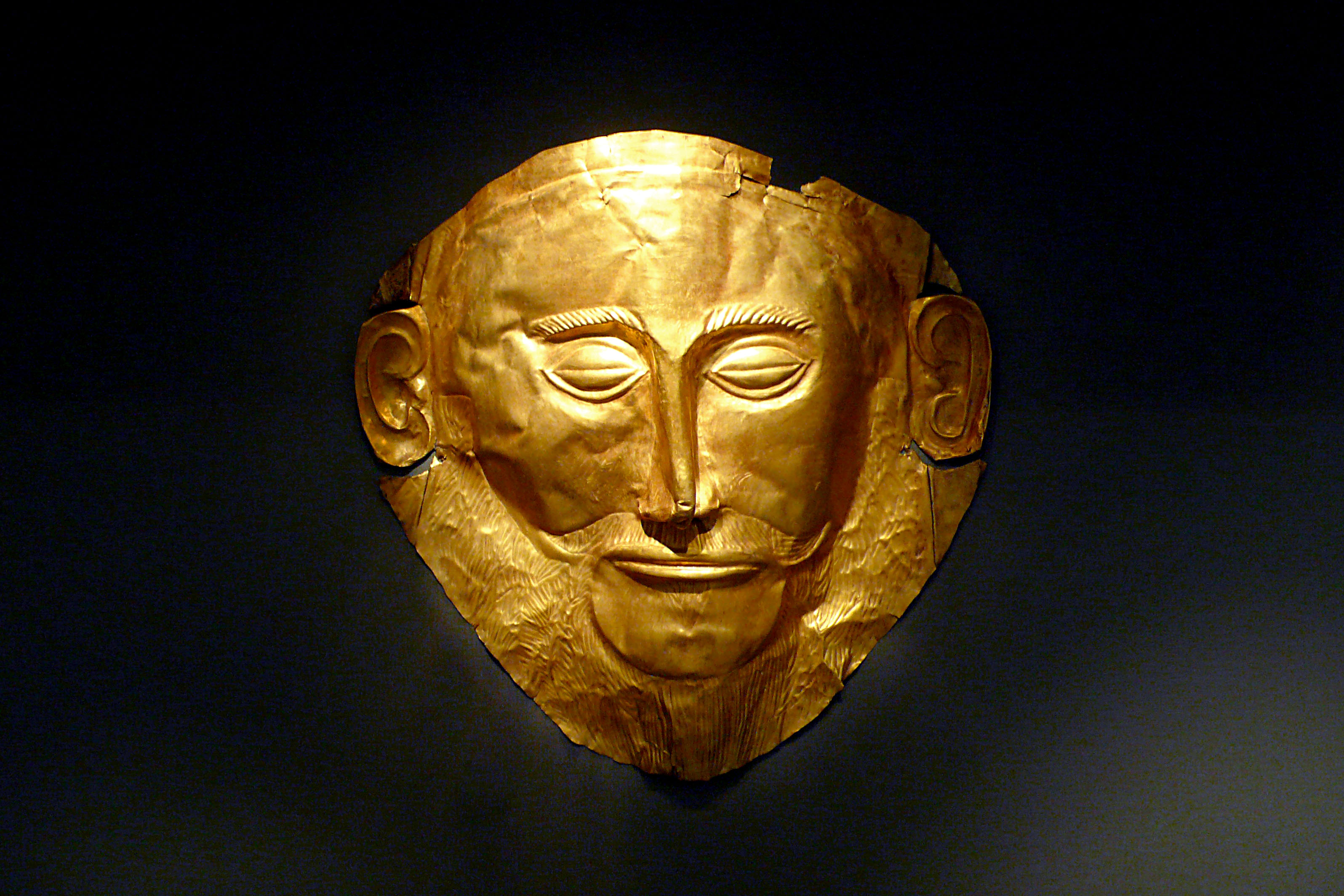 Shaft Grave V, Grave Circle A, Mycenae. 1600-1500 BC. National Archaeological Museum, Athens. Gold death-mask known as the "Mask of Agamemnon". This mask depicts the imposing face of a bearded noble man. It is made of a gold sheet with repoussé details. Two holes near the ears indicate that the mask was held in place of the deceased's face with twine. Once part of a large cemetery outside the acropolis walls, Grave Circle A was discovered within the Mycenaean citadel by Heinrich Schliemann in 1876 under the supervision of the Greek Ephor of Antiquities Panagiotis Stamatakis. The tombs in Grave Circle A contained a total of nineteen burials: nine males, eight females and two infants. With the exception of Grave II, which contained a single burial, all of the other graves contained between two and five inhumations. The amazing wealth of the grave gifts reveals both the high social rank and the martial spirit of the deceased: gold jewelry and vases, a large number of decorated swords and other bronze objects, and artefacts made of imported materials, such as amber, lapis lazuli, faience and ostrich eggs. All of these, together with a small but characteristic group of pottery vessels, confirm Mycenae's importance during this period, and justify Homer's designation of Mycenae as 'rich in gold.' Shaft Grave V contained three male burials. Two of the deceased wore gold death-masks, one of which is known as the "Mask of Agamemnon". The grave gifts included gold breastplates, elaborate bronze swords and daggers, gold and silver vessels, an ostrich egg rhyton and a wooden pyxis. There was less gold jewelry that in the female graves, but a great number of amber beads.